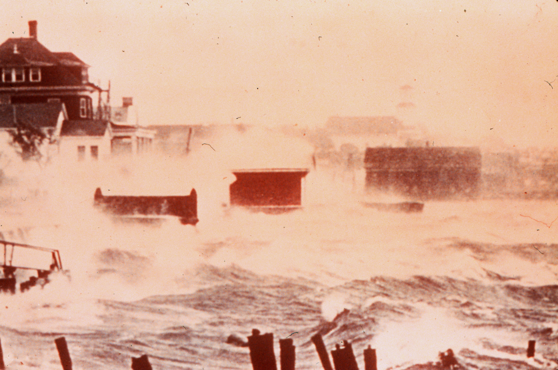 Storm Surge from Hurricane Carol on August 31, 1954